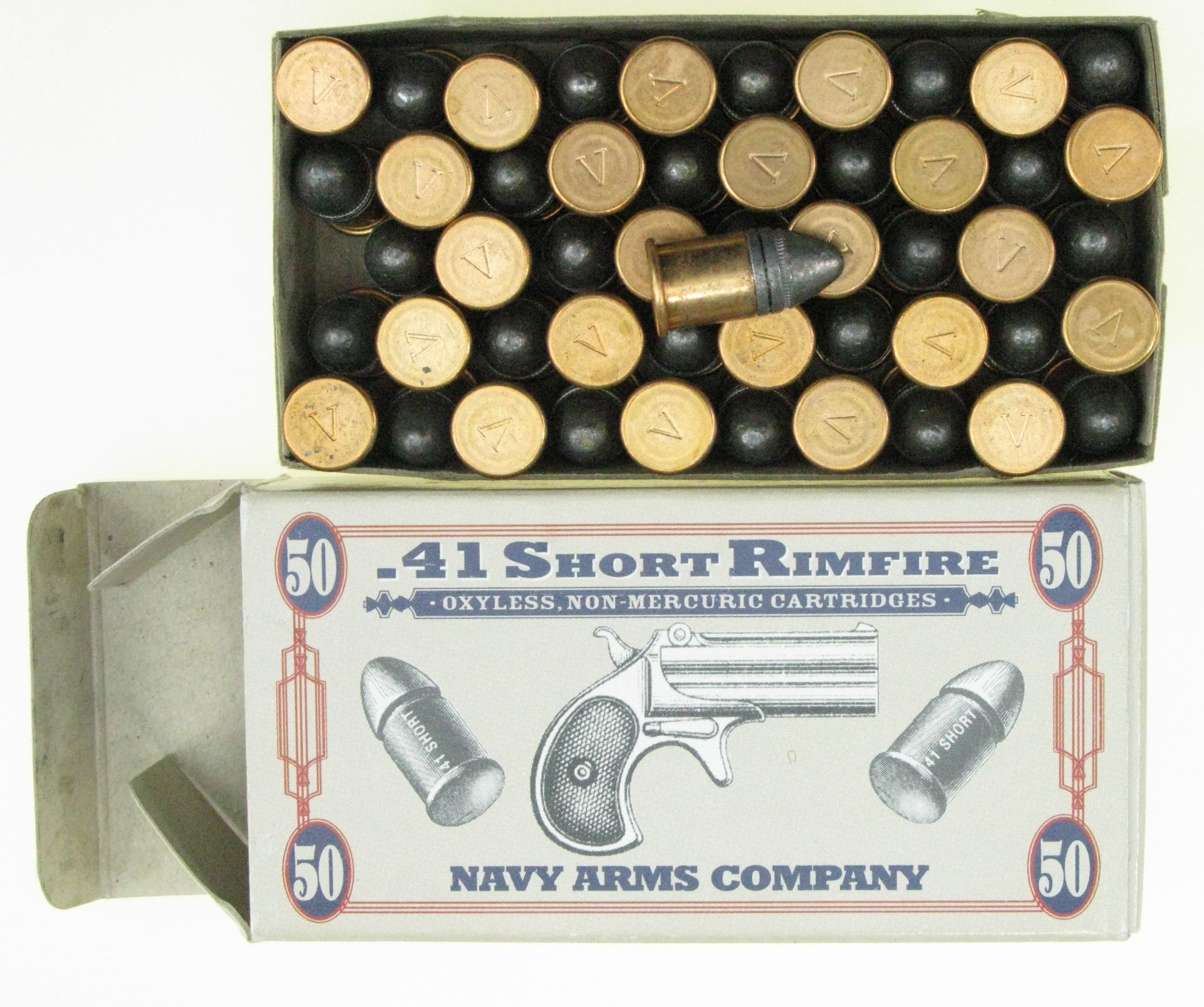 Box of .41 Short Rimfire ammunition from Navy Arms Company.